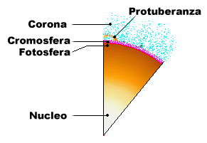 Italian translation of Image:Coupe_soleil.png